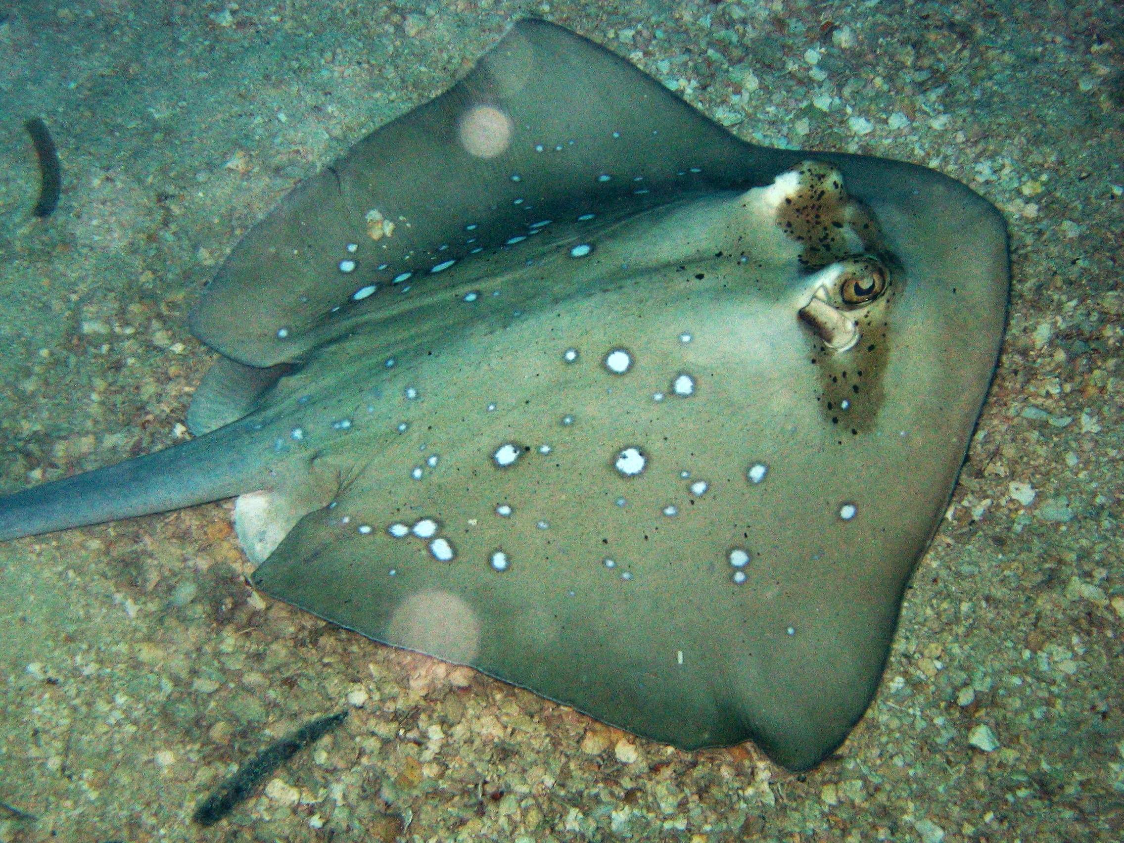 A blue-spotted stingray (Dasyatis kuhlii) on the bottom Image ID: reef0600, NOAA's Coral Kingdom Collection Location: Chuuk, Federated States of Micronesia